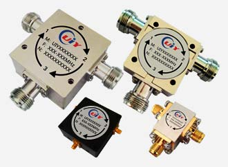 A collection of coaxial circulators in the frequency range 20MHz to 20GHz.